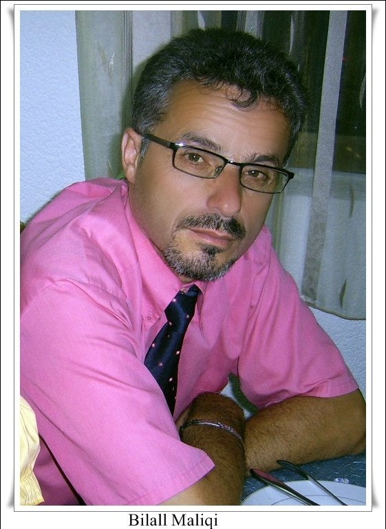 Billall Maliqi